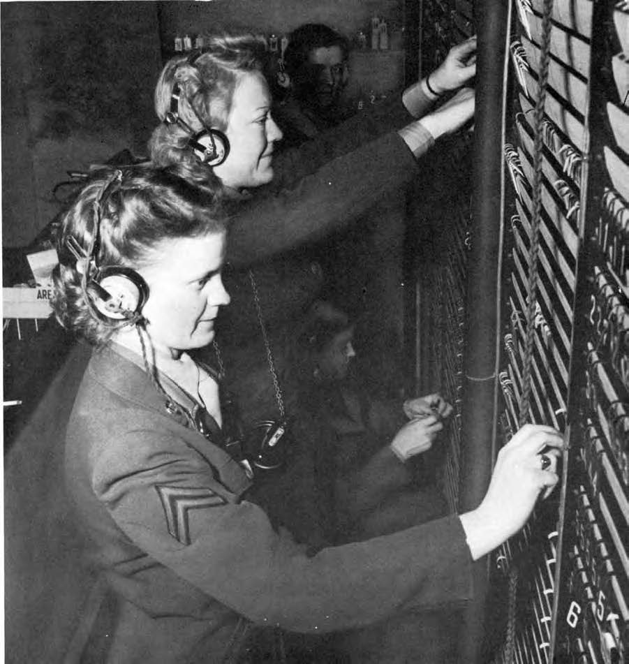 WACS working in the communications section of the operations room at an air force station. No opportunity was overlooked to replace men with personnel of the Women’s Army Corps both in the United States and overseas, WACs were given many technical and specialized jobs to do, as well as administrative and office work. The Medical Corps employed the largest number of WACs in technical jobs, but other technical services such as the Transportation Corps, Signal Corps, Ordnance Department, and Quartermaster Corps had many positions that could be performed by women as efficiently as by men.